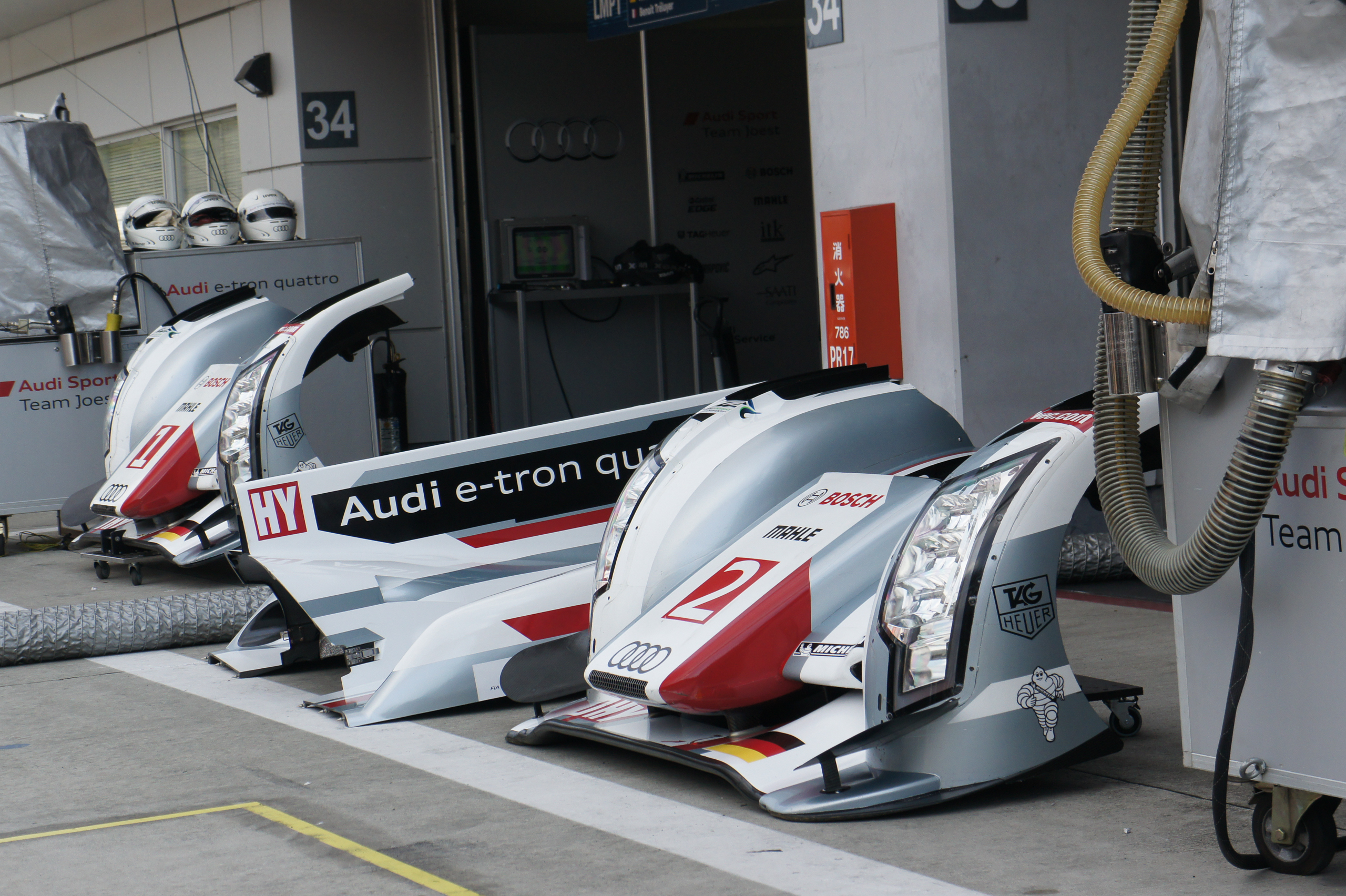 FIA World Endurance Championship 2012 Rd.7 6 Hours of Fuji: Audi R18 e-tron quattro front parts